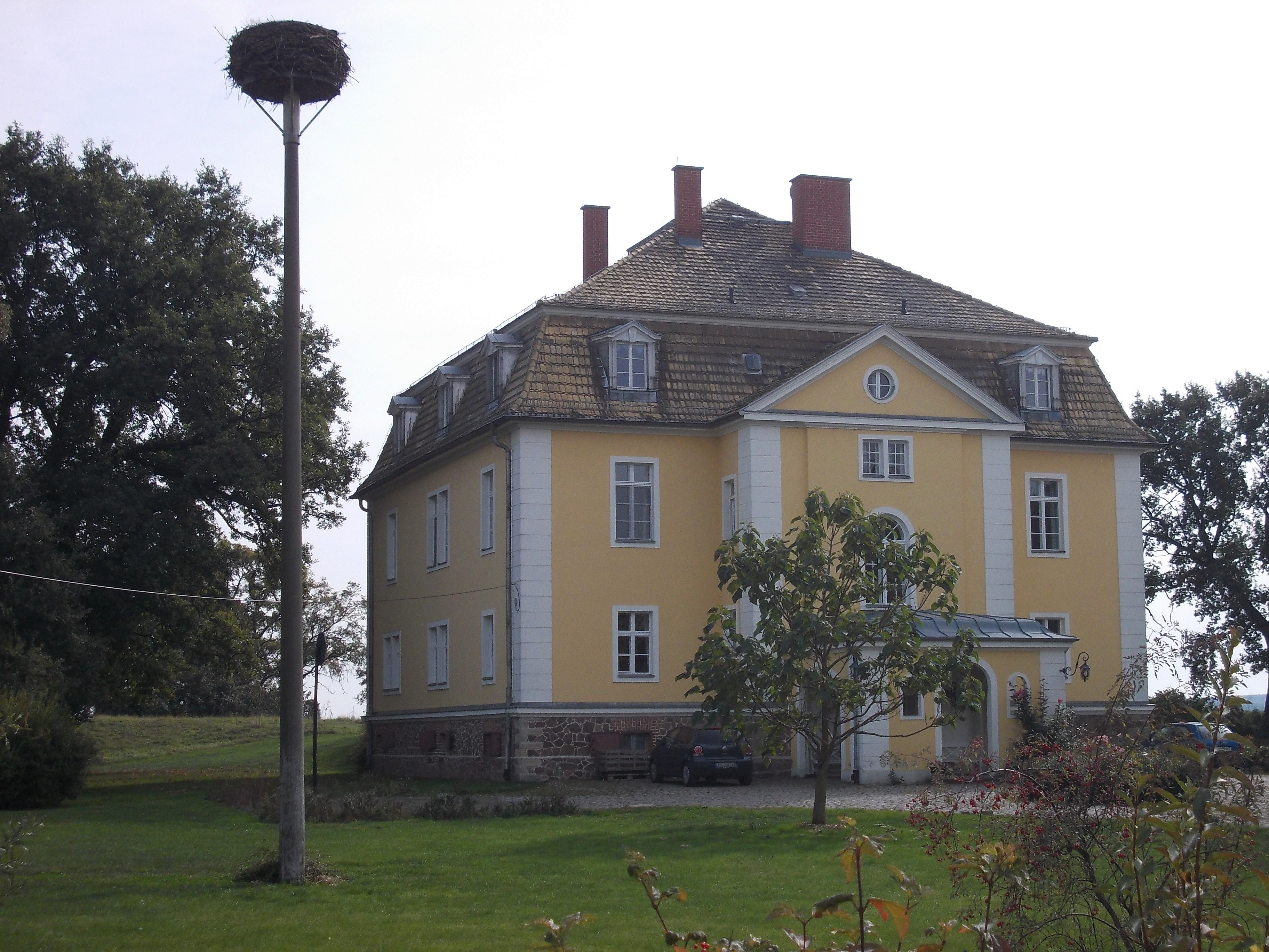 Kamitz manor house (Arzberg, Nordsachsen district, Saxony)